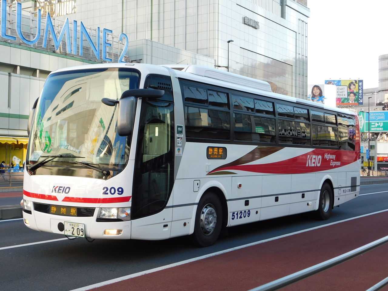 Keio bus east Mitsubishi Fuso Aero Ace(QRG-MS96VP)on highwaybus "Shinjuku,Shibuya-Shizuoka"